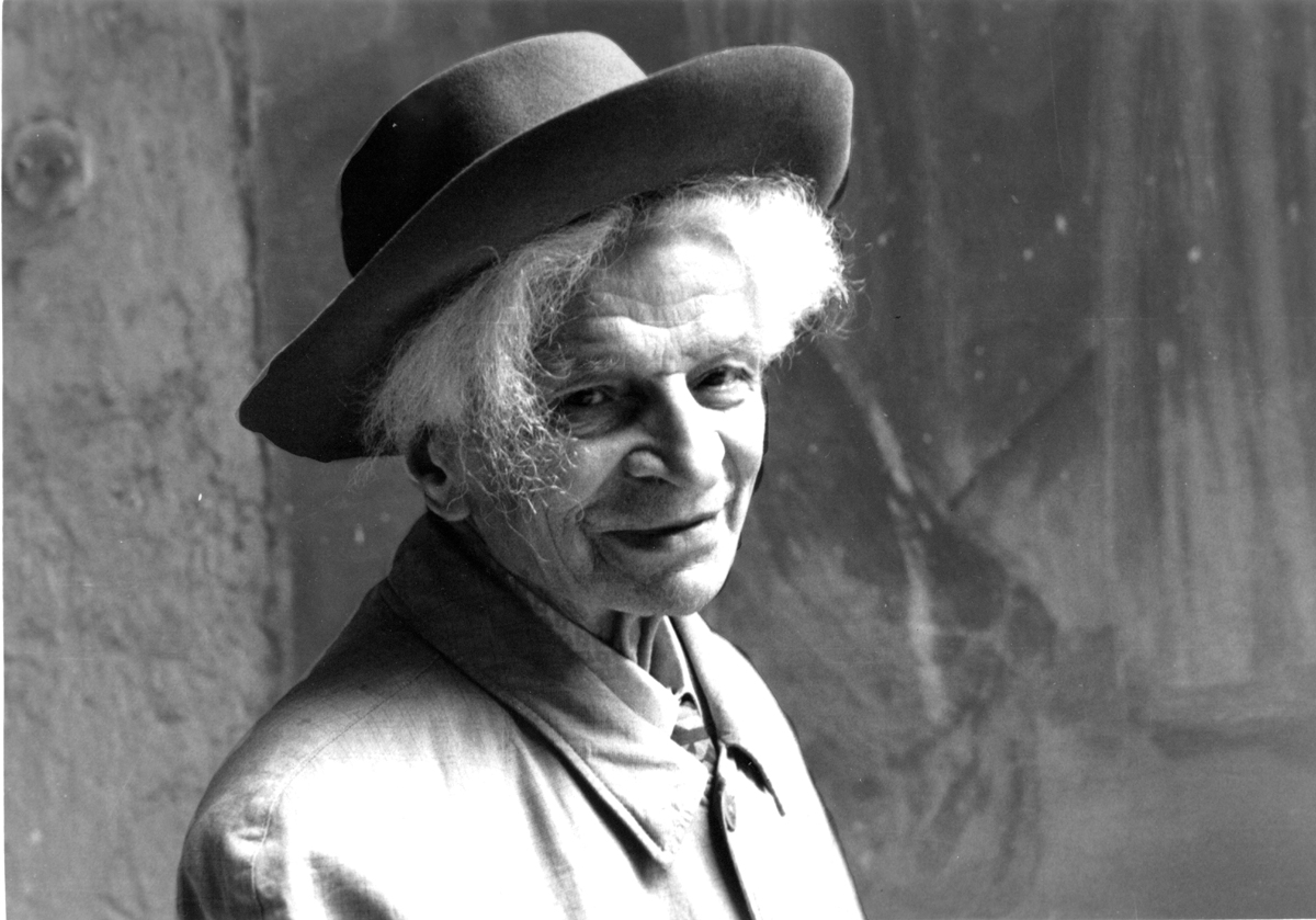 Artist Innocente Salvini at his studio on 1977. Picture generously donated by photographer (and artist also) Gildo Angelo Carabelli.